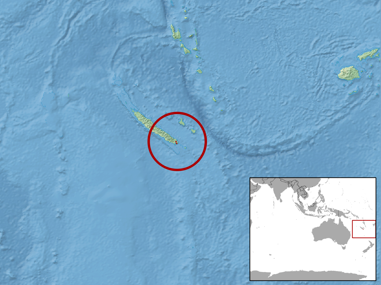 geographic distribution of Lacertoides pardalis